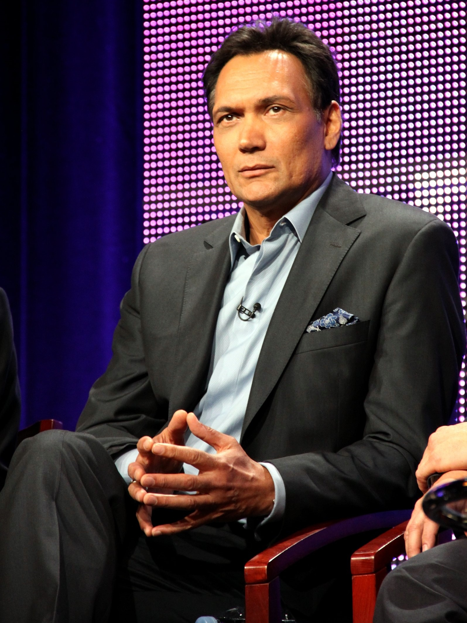 Jimmy Smits played Cyrus Garza in "Outlaw".